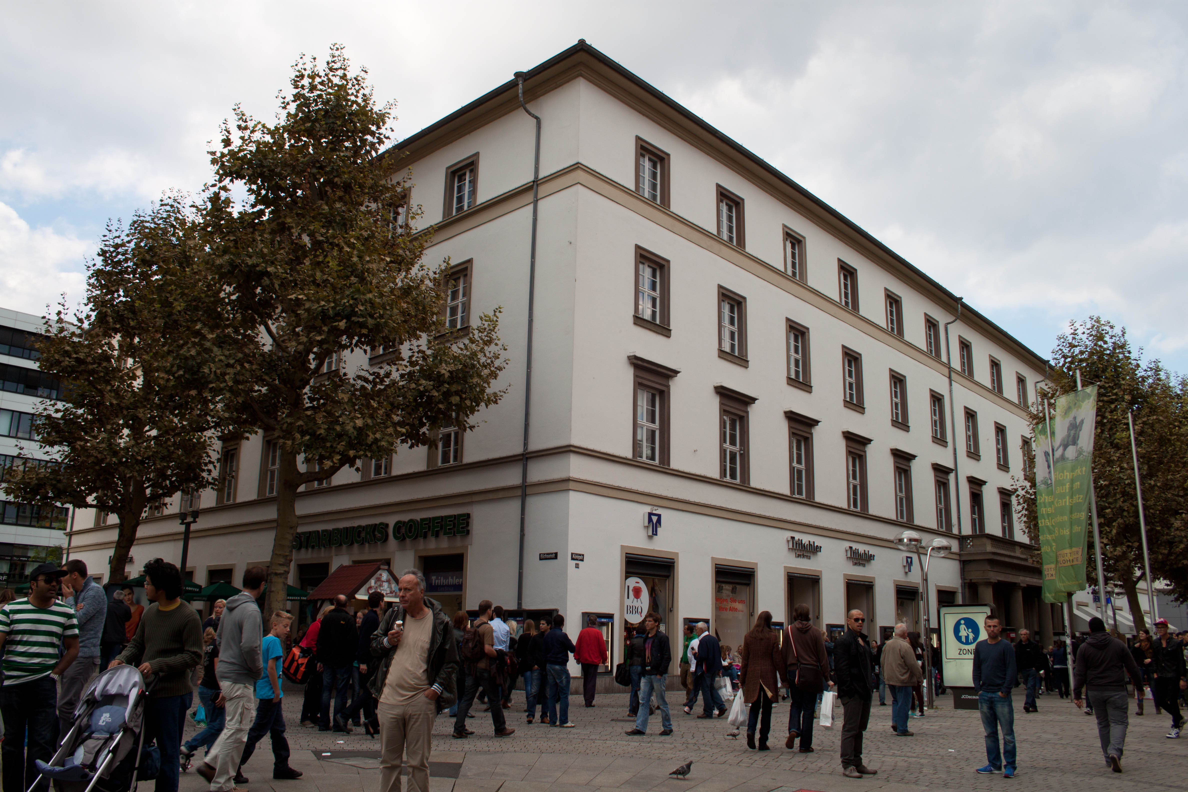 New Chancery in Stuttgart Germany